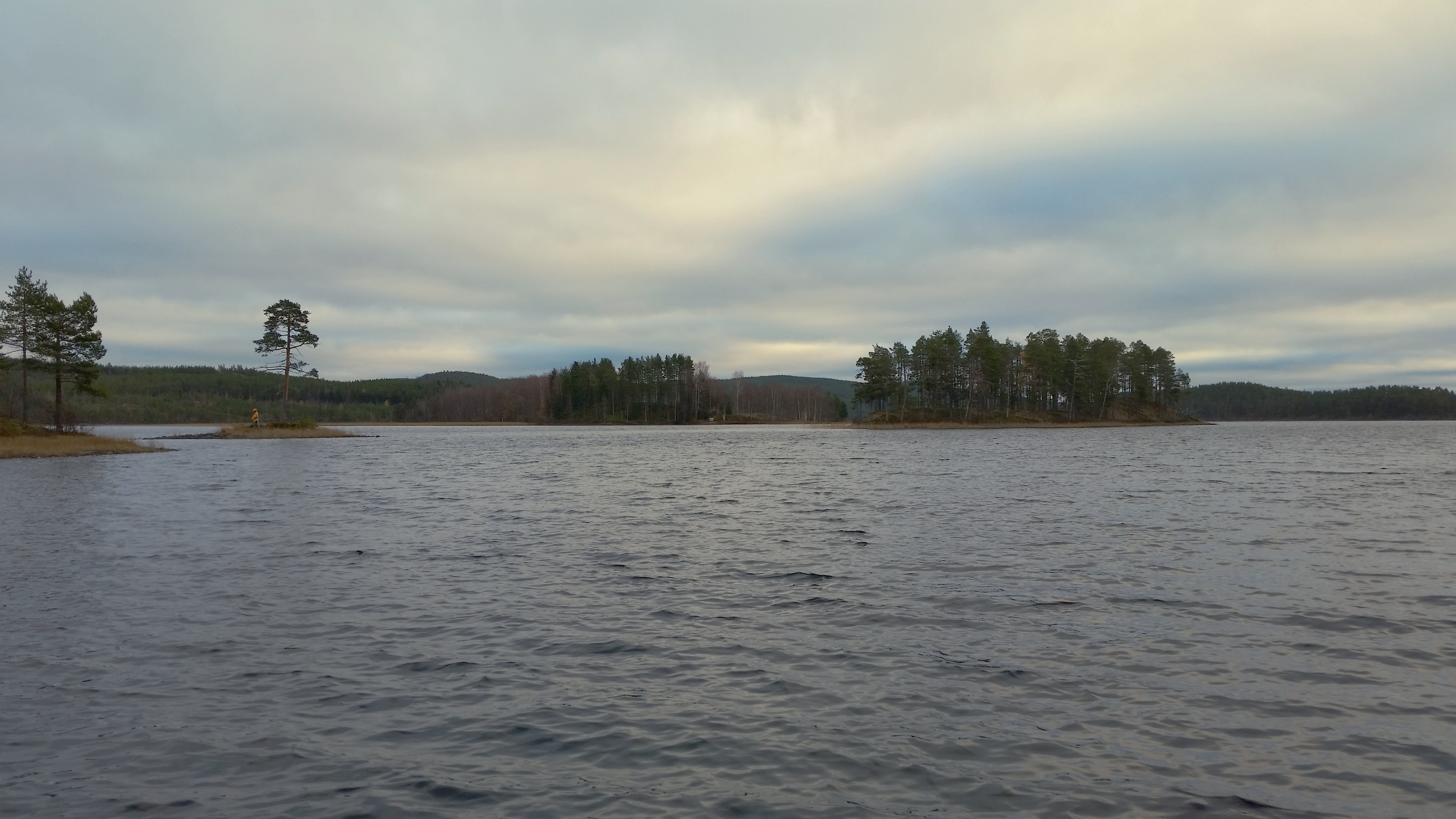 Åmträsket. The photo is taken in Knäviken and from the left in the picture we see a cape that protrudes, then comes Entallaholmen with his old man fishing, Åkerholmen with a house that can be glimpsed through the woods and Knäviksholmen which is a esker rising up of the lake.